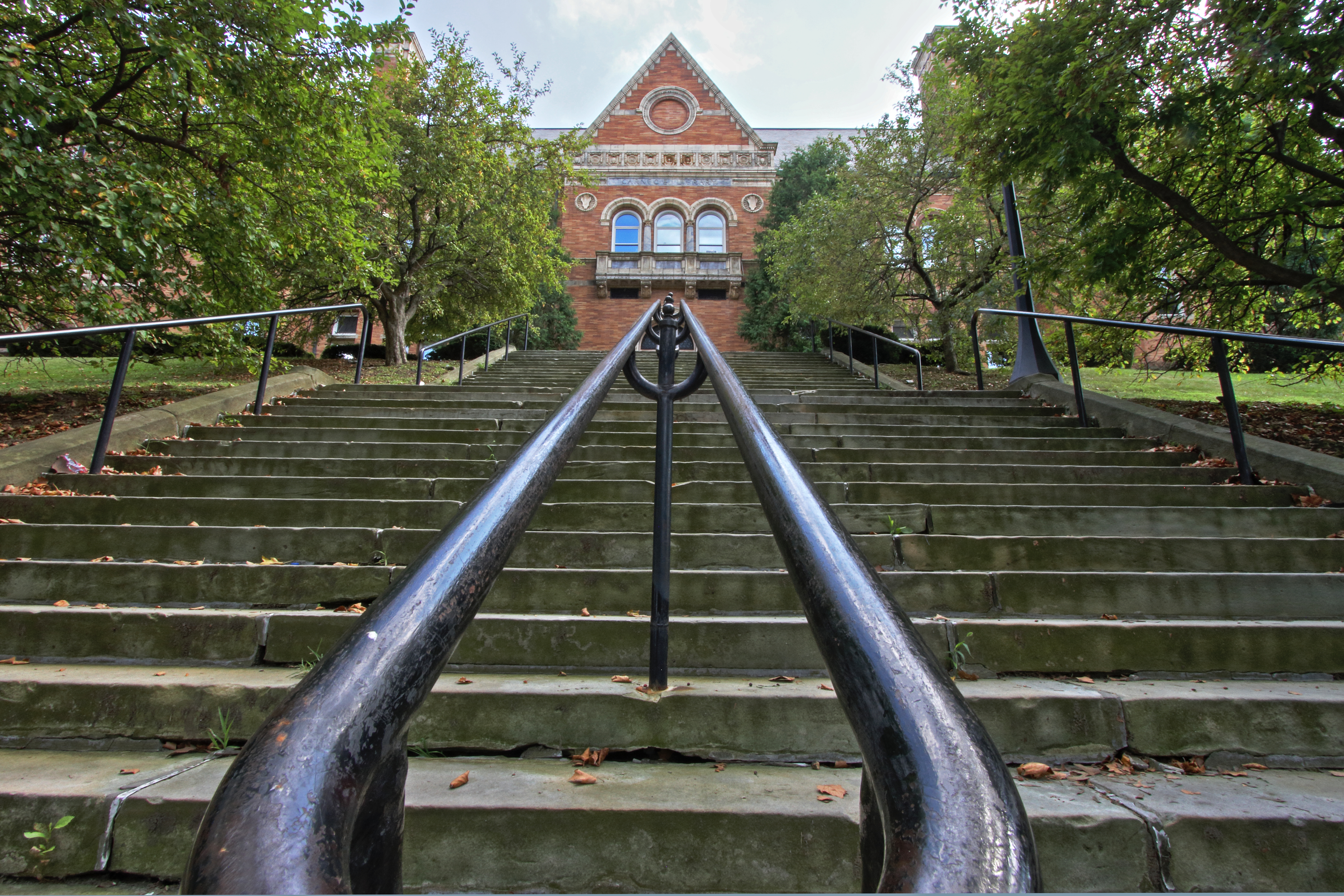 A view looking up the stairs to the main entrance of the Carnegie Library of Homestead in Munhall, Pennsylvania